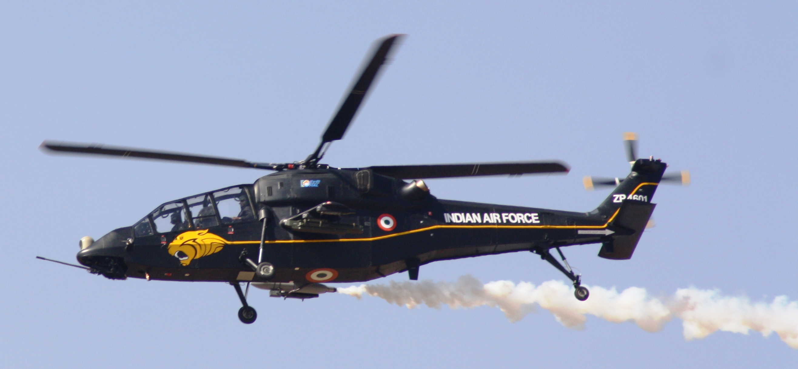 HAL's Light Combat Helicopter at Aero India 2013